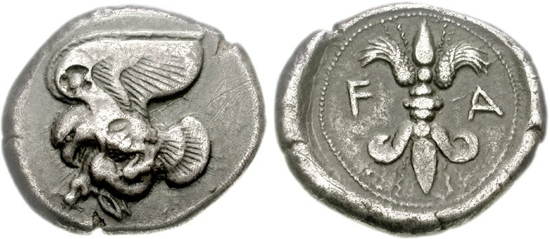 Stater, 468-452 BC, Olympia. 78-82th Olympiad